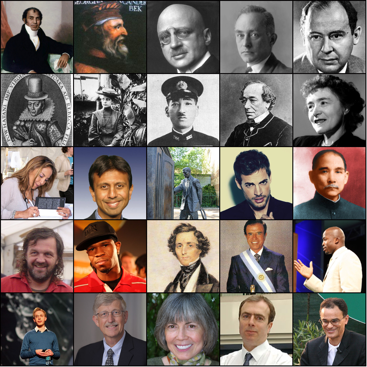 Famous Other Christians. Anyone can use these original photos themselves among others and make another collage of (Christians) themselves or remix as they wish, as long as they give the correct source and usage/Copyright given. Dont delete the photos, if one becomes unusable due to copyright, please dont delete, just replace the photo or i will.